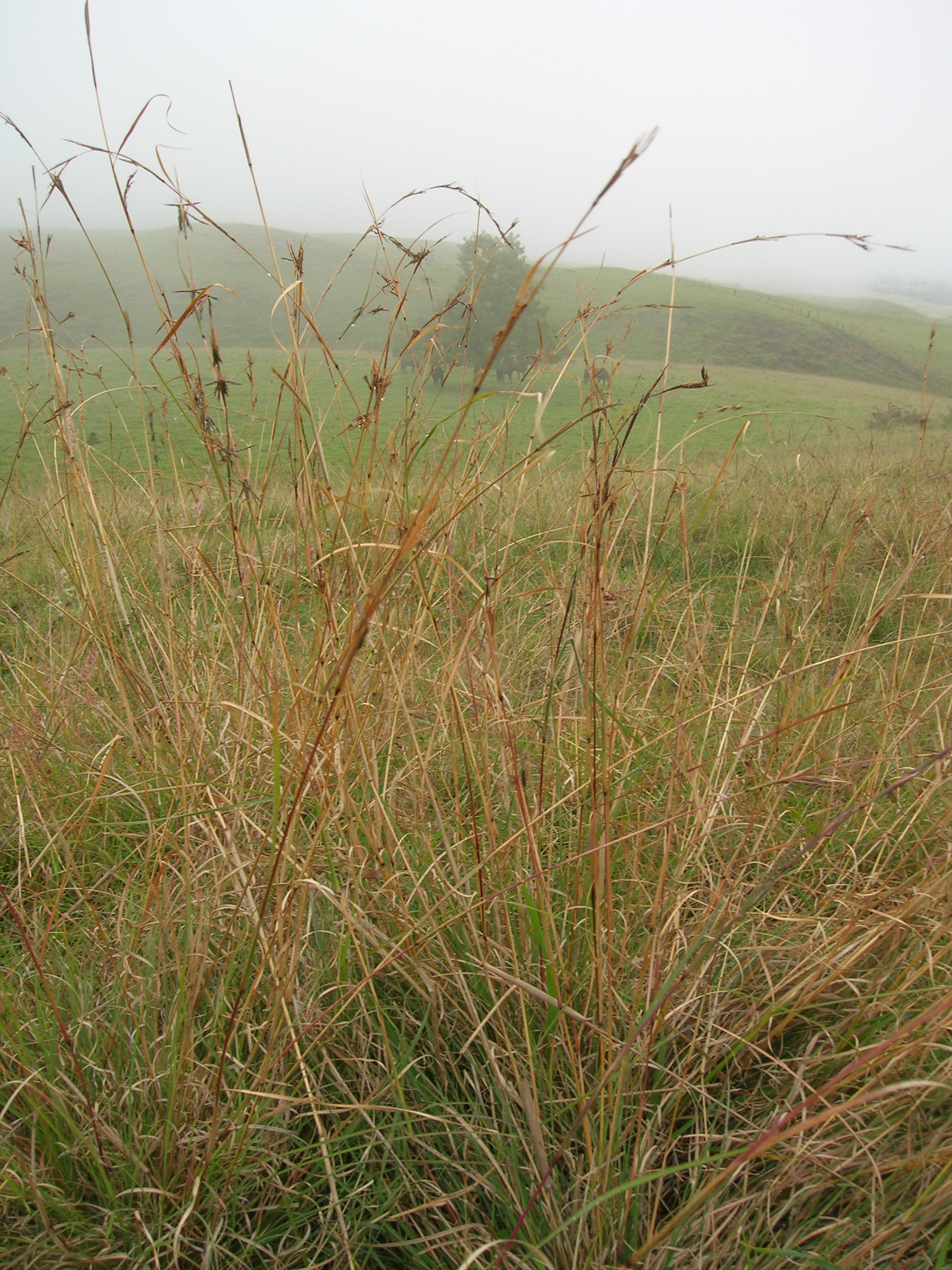 Cymbopogon refractus (habit). Location: Maui, Haleakala Ranch